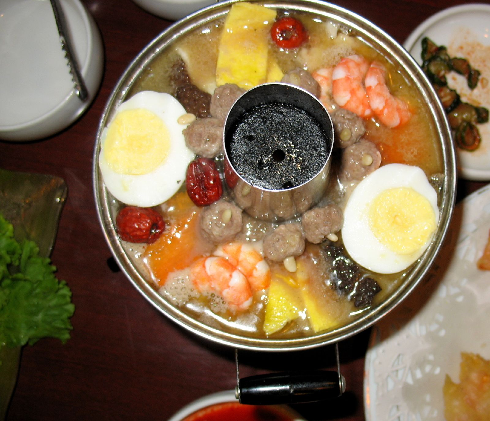 A variety of sinseollo, Korean royal court cuisine